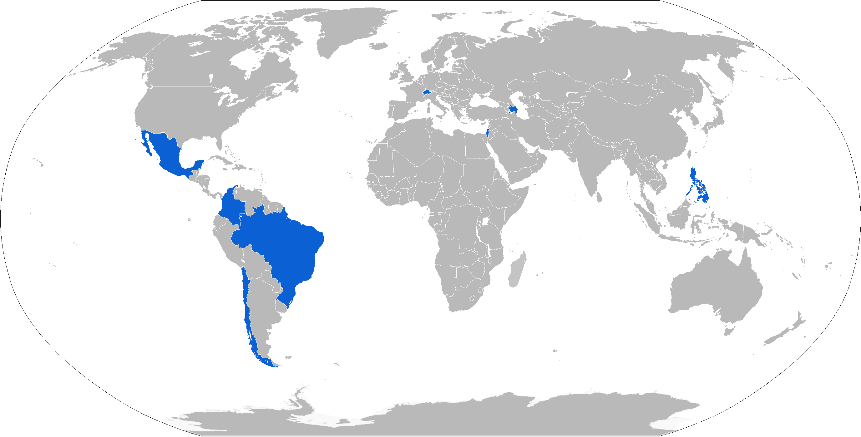 Map with Elbit Hermes 900 operators in blue